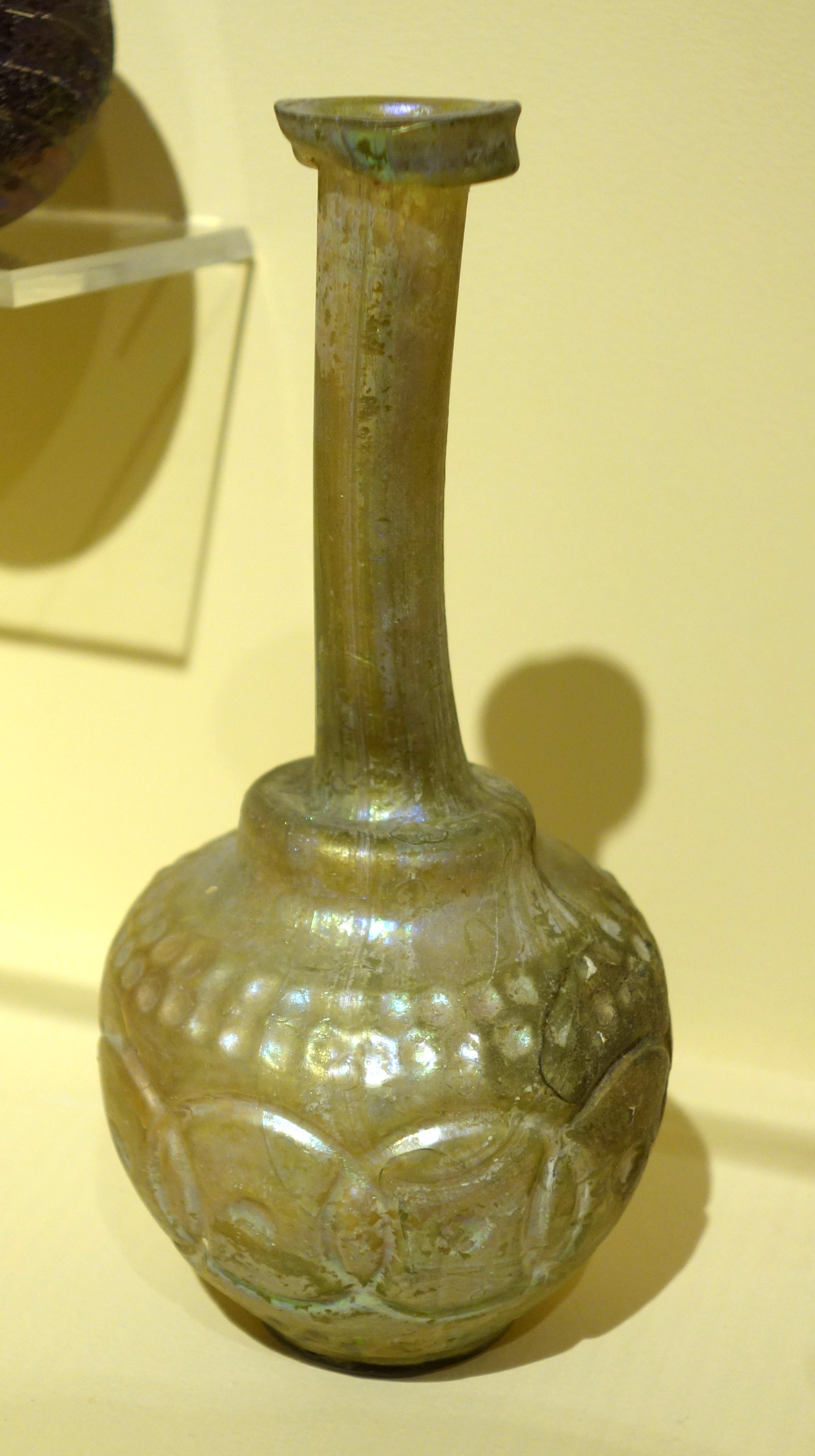 Exhibit in the Fitchburg Art Museum, Fitchburg, Massachusetts, USA. This artwork is old enough so that it is in the public domain.